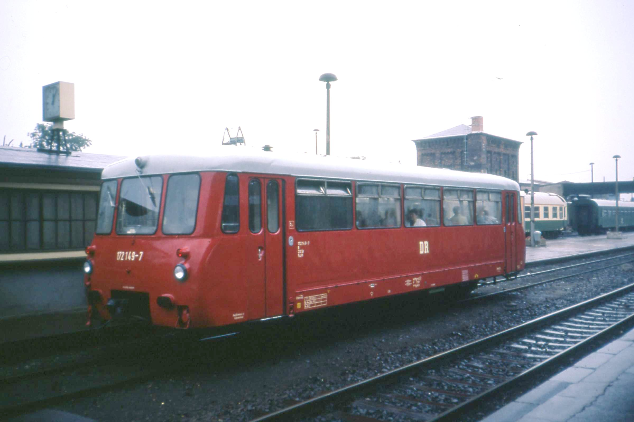 One of two simultaneous departures of railbuses from Gotha : the 12.17 to Crawinkel Zug was no 16017 and Friedrichswerth, Zug no 8912. I have no idea which one this was. I suspect it was the former as the latter left from the bay. KBS 614 at that time survives is now renumbered kbs 572 and has a timetable not greatly altered since Reichsbahn times. The Friedrichswerth route vanished in 1995